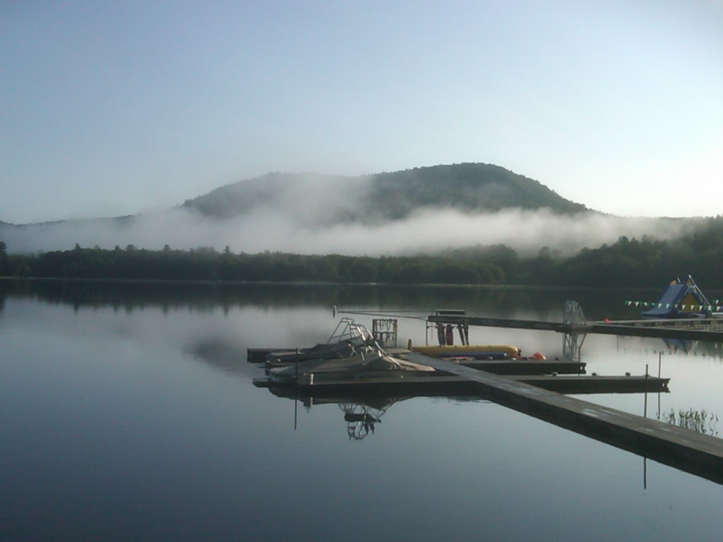 This is a picture of Little Bear Pond which is the lake located on Camp Wekeela.